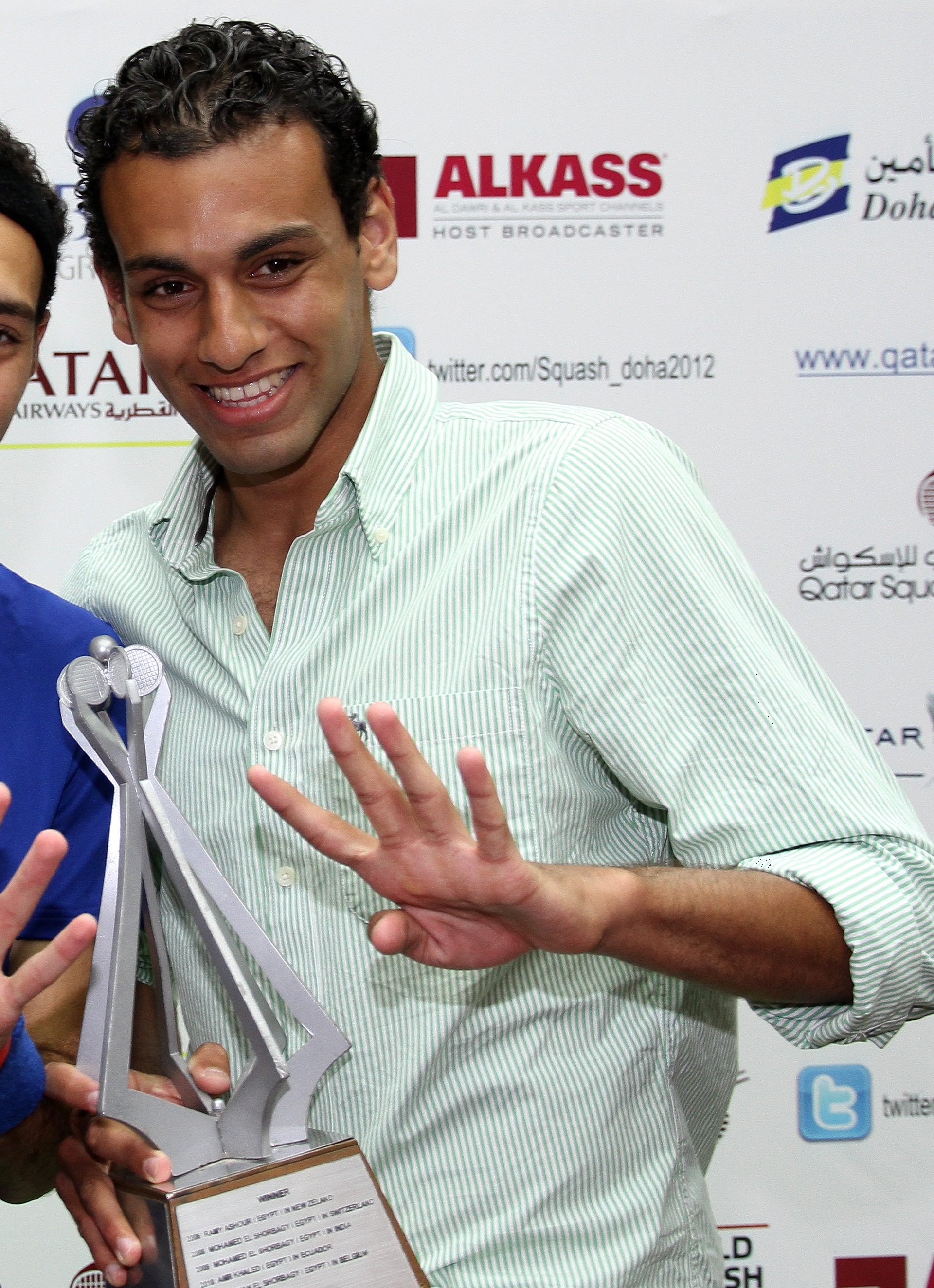 Mohamed Elshorbagy